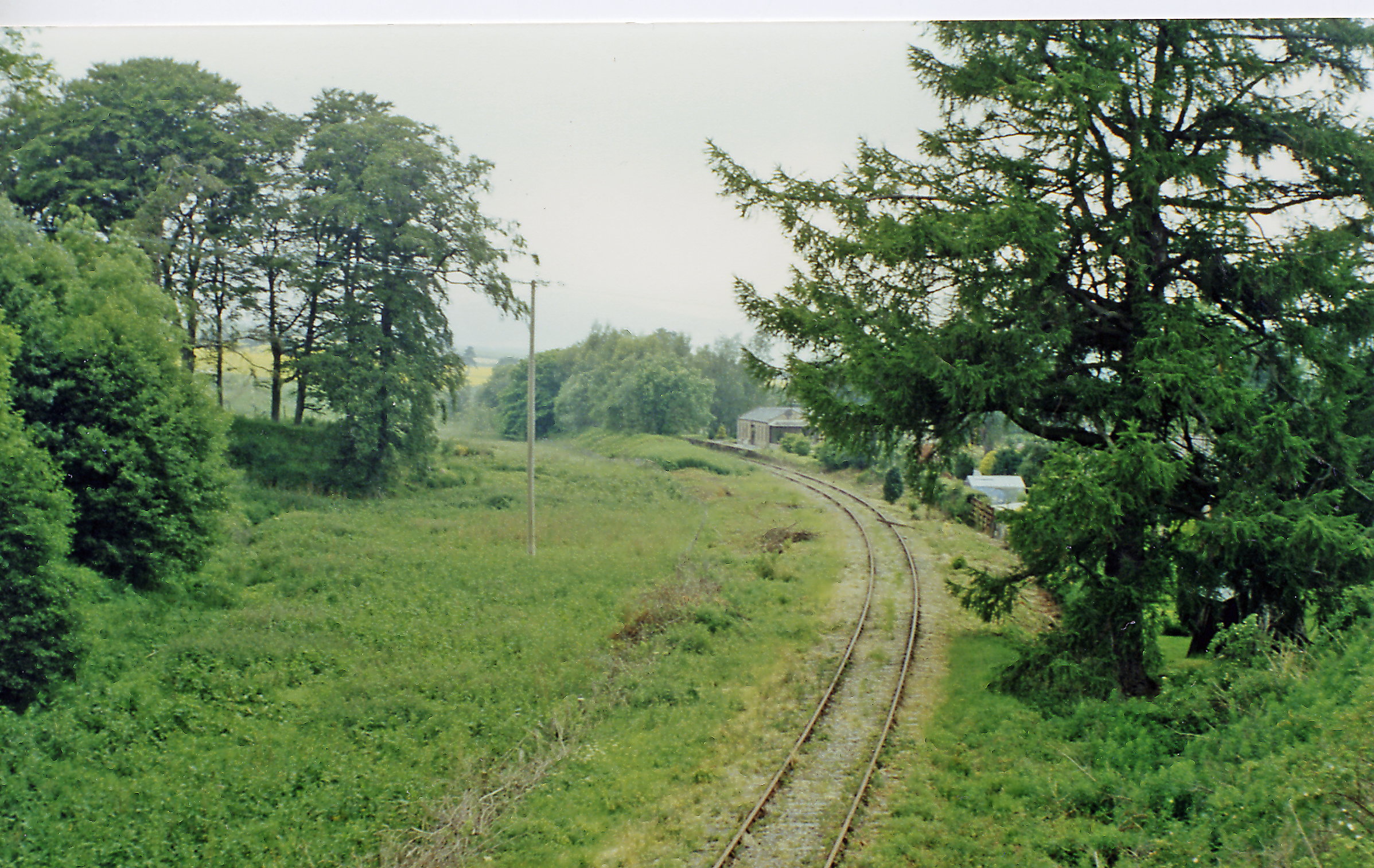 Auchindachy station (remains), 1997. View northwards, towards Keith etc.: ex-GNSR (Aberdeen) - Keith - Craigellachie - Elgin/Boat of Garten line. The station was closed when the regular passenger service ceased on 6/5/68, but although closed for goods in 11/71 the line survived to convey Excursions to - and whisky from, Dufftown at least until 1/91. The track remaining here in 1997 was saved and the Keith & Dufftown Heritage Railway reintroduced trains over it to Drummuir in 6/2000 and on to Keith on 18/8/01,'reopening' Auchindachy station.